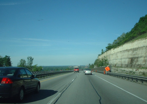 Highway 403 as it begins to descend the Niagara Escarpment, in Hamilton, Ontario